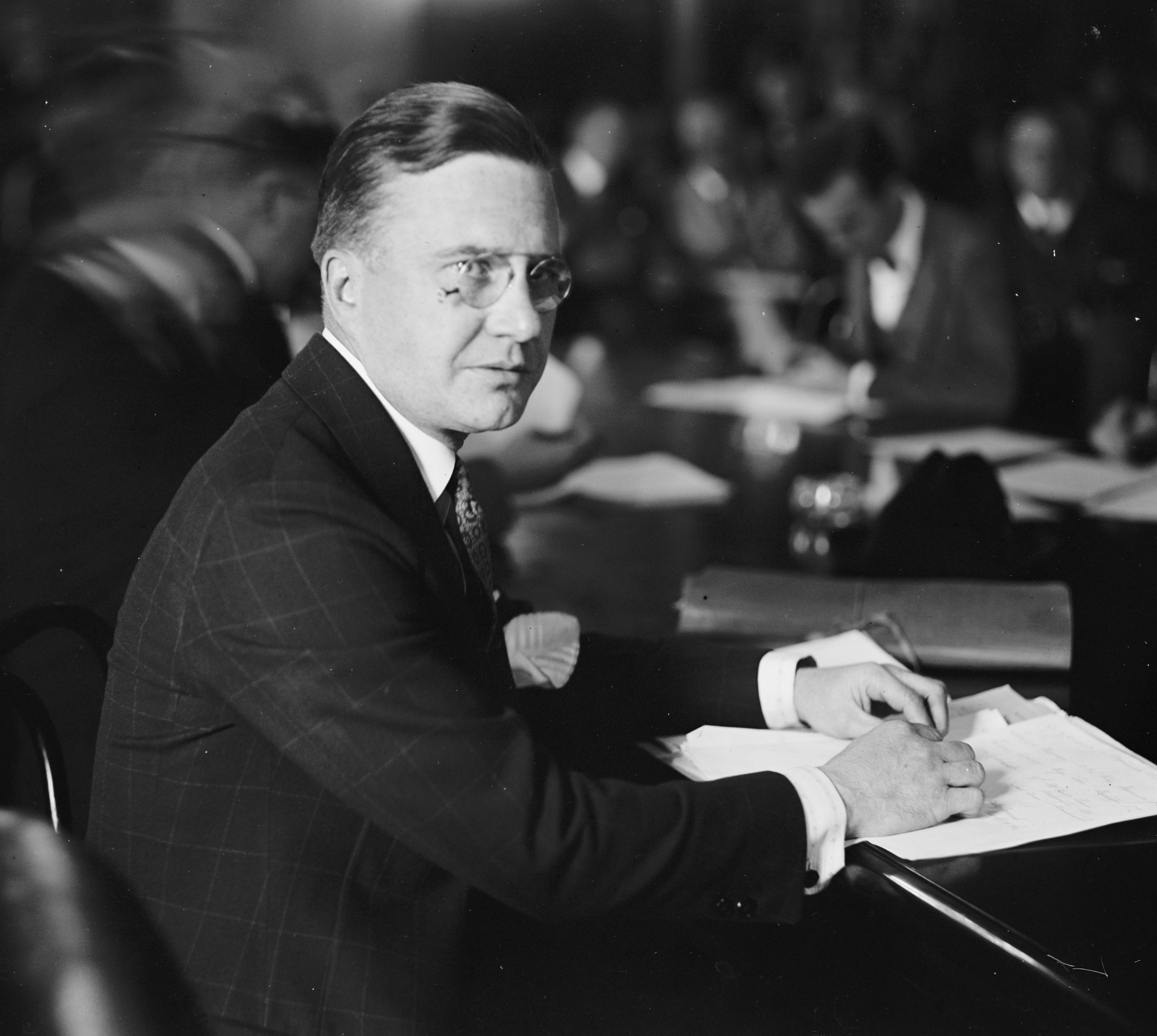 Title: Waymouth Kirkland of Chgo., Counsel for Rep. Natl. Com., before Borah Committee, 10/28/24 Abstract/medium: 1 negative : glass ; 5 x 7 in. or smaller